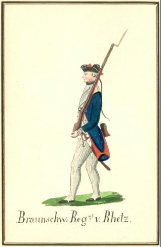 Watercolor of a Soldier from the Brunswich regiment von Rhetz